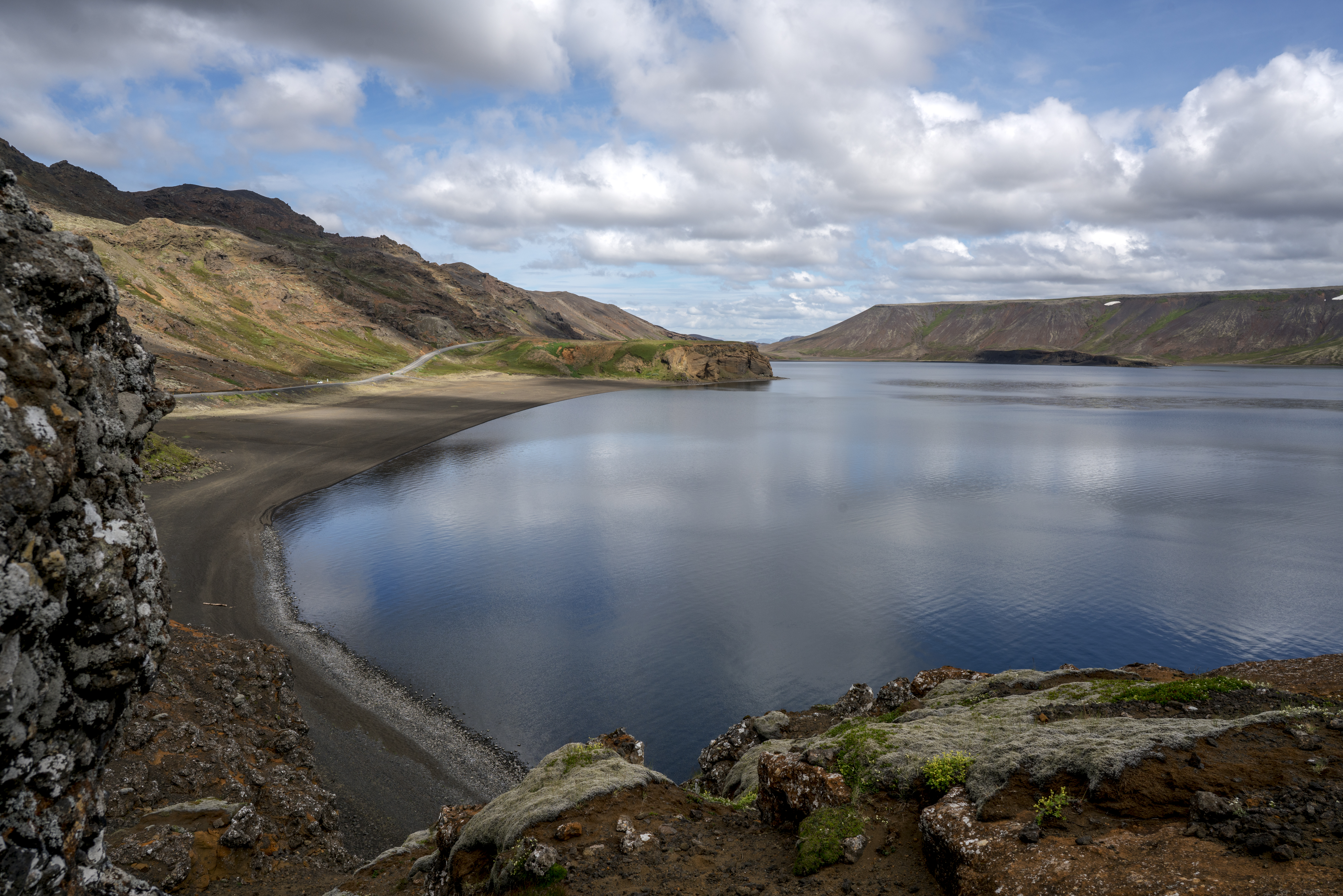 Kleifarvatn lake (Iceland)